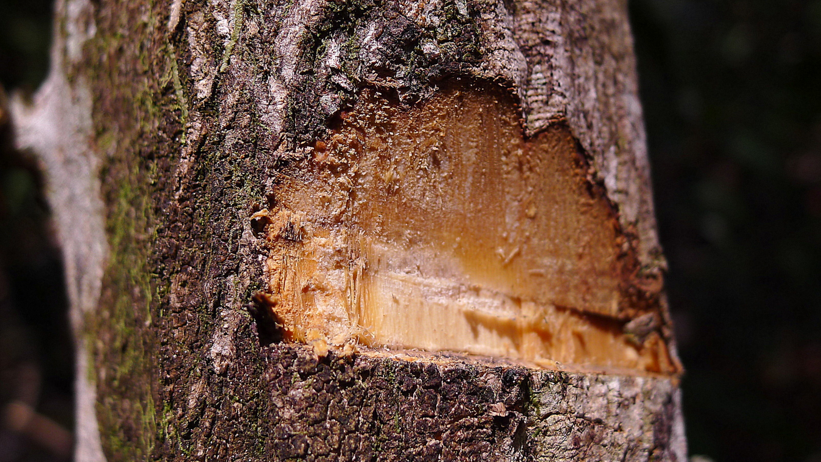 Duguetia moricandiana Mart., Annonaceae, Atlantic forest, northeastern Bahia, Brazil Tree 12 m. Popovkin & Mendes 1239 (HUEFS).